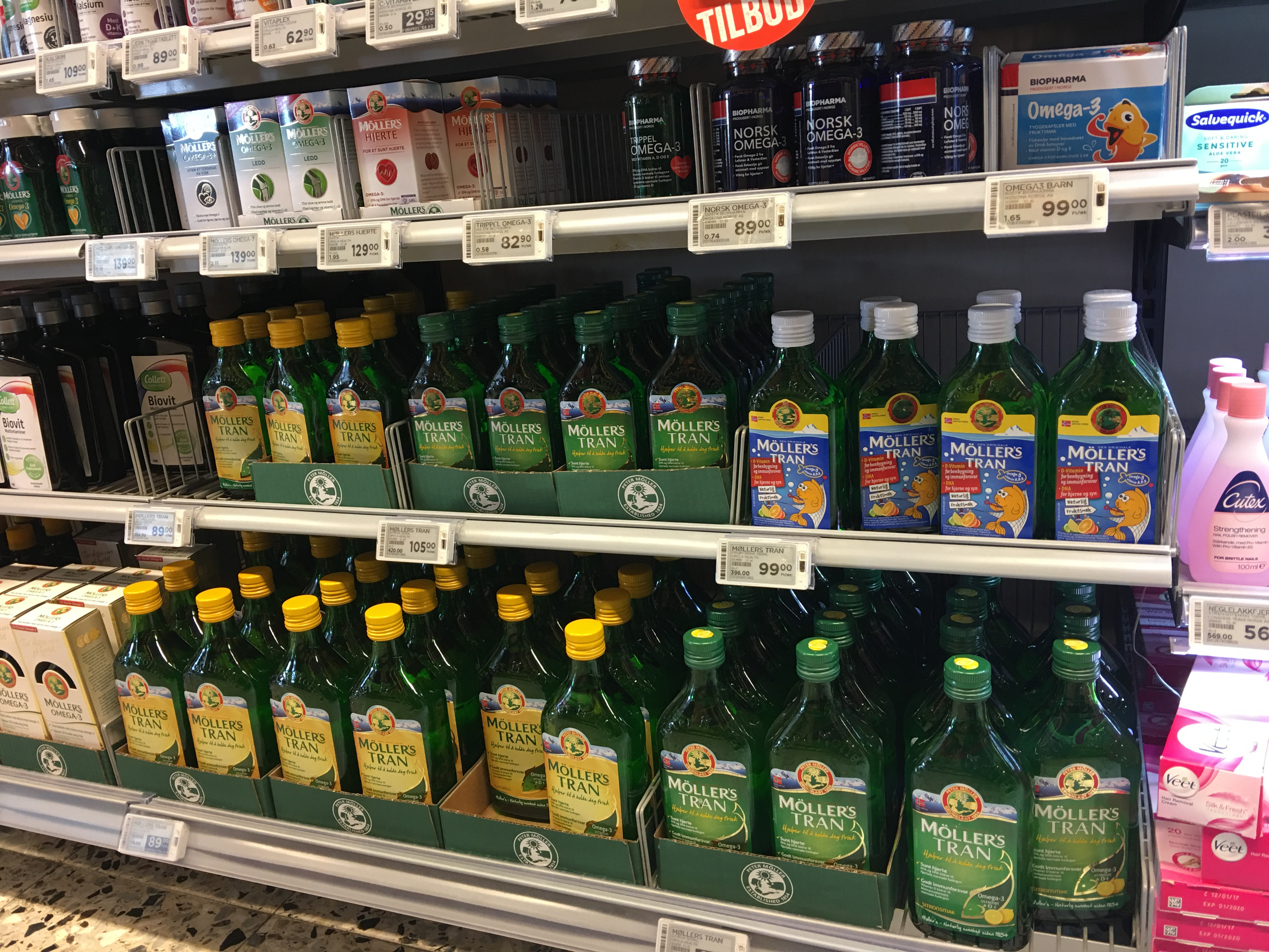 Shelves for cod liver oil etc. in Meny Supermarket in Tønsberg, Norway. September 20th, 2017.